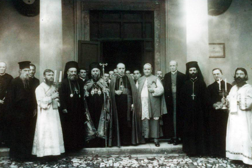 Episcopal consecration of Kiril Kurtev in Basilica of San Clemente Rome on December 5, 1926